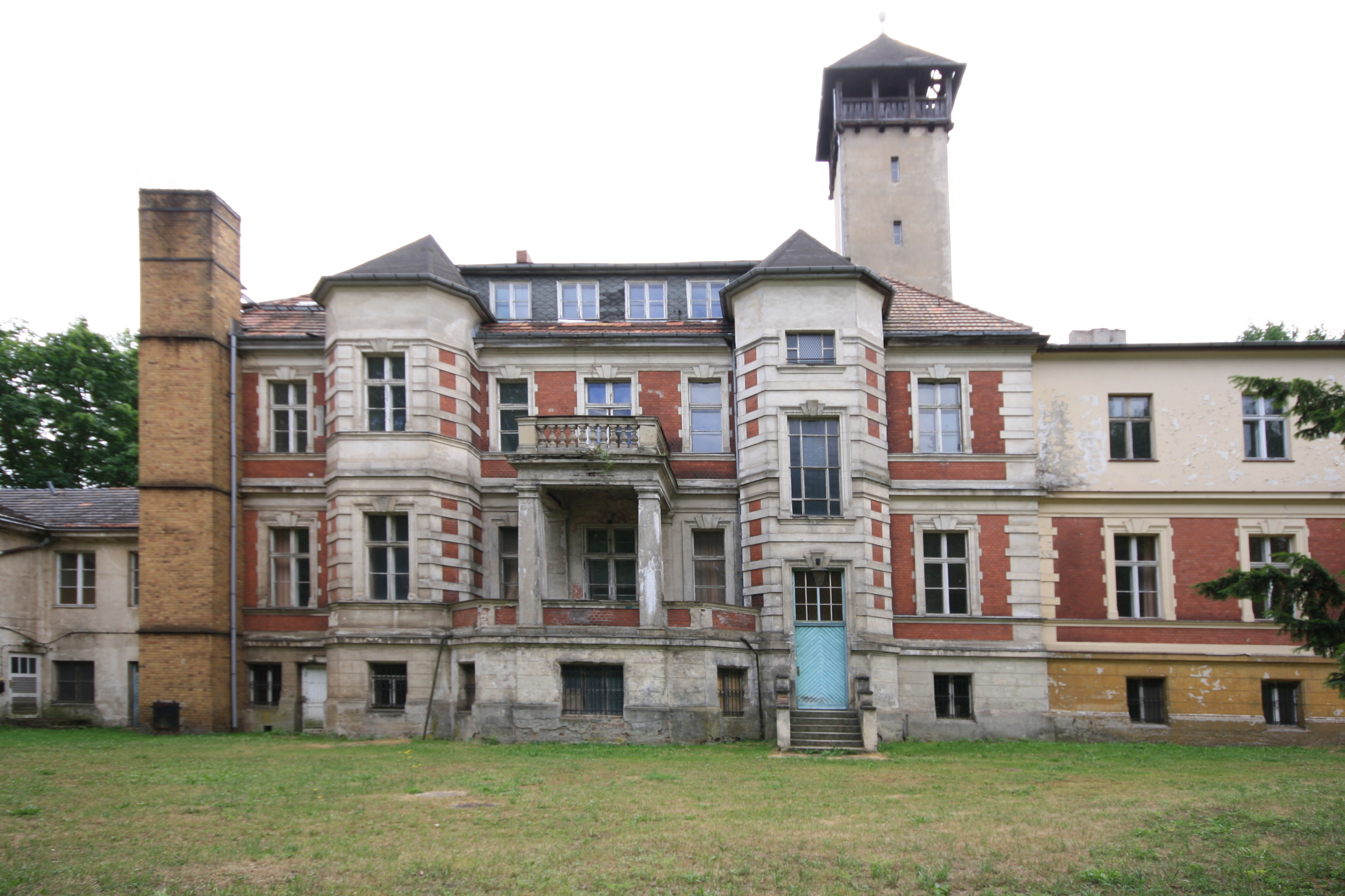 Estate in Schulzendorf, rear view